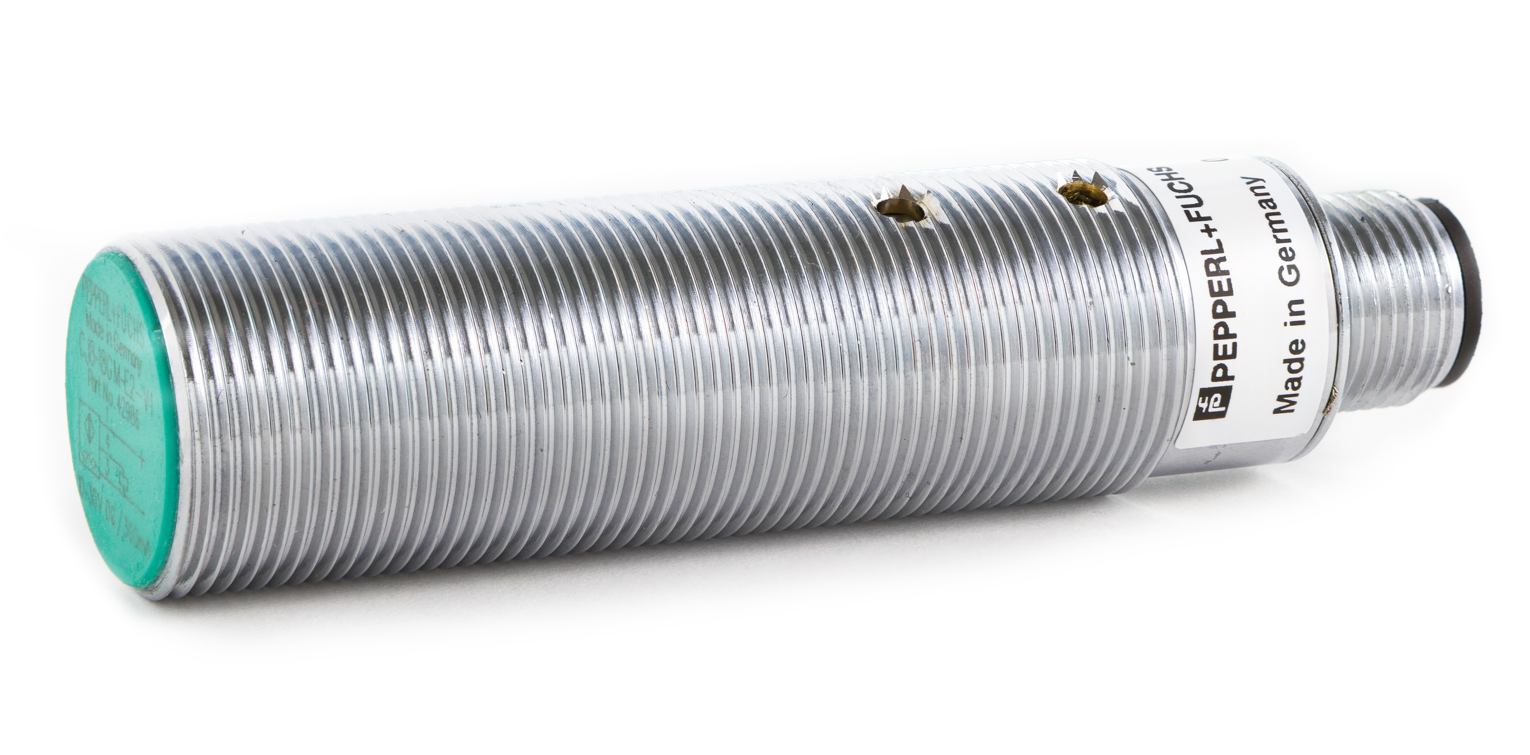 Capacitive sensor made by Pepperl+Fuchs, 18mm diameter (M18), length 75mm, operating distance 8mm